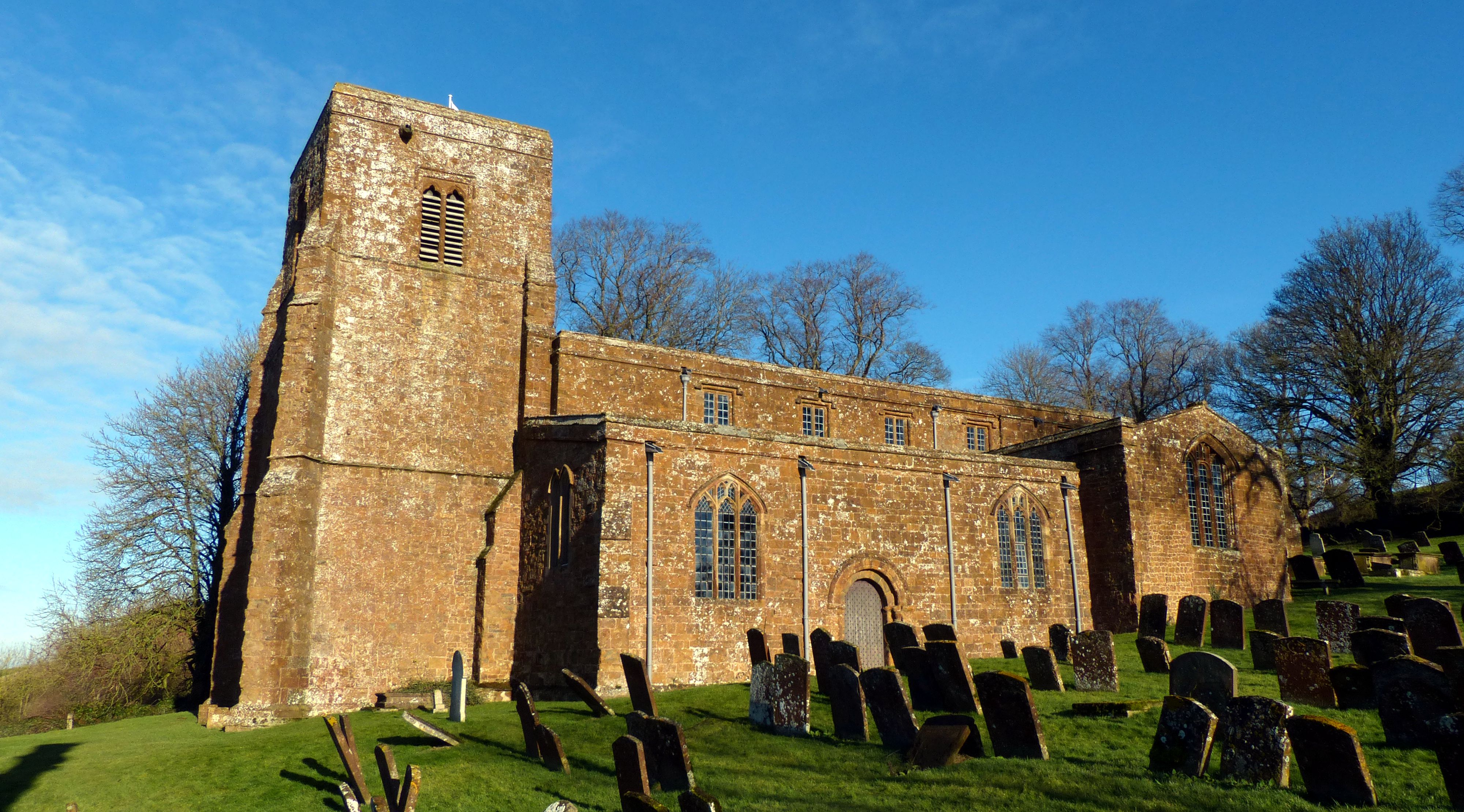 Exterior view of All Saints Church, Burton Dassett